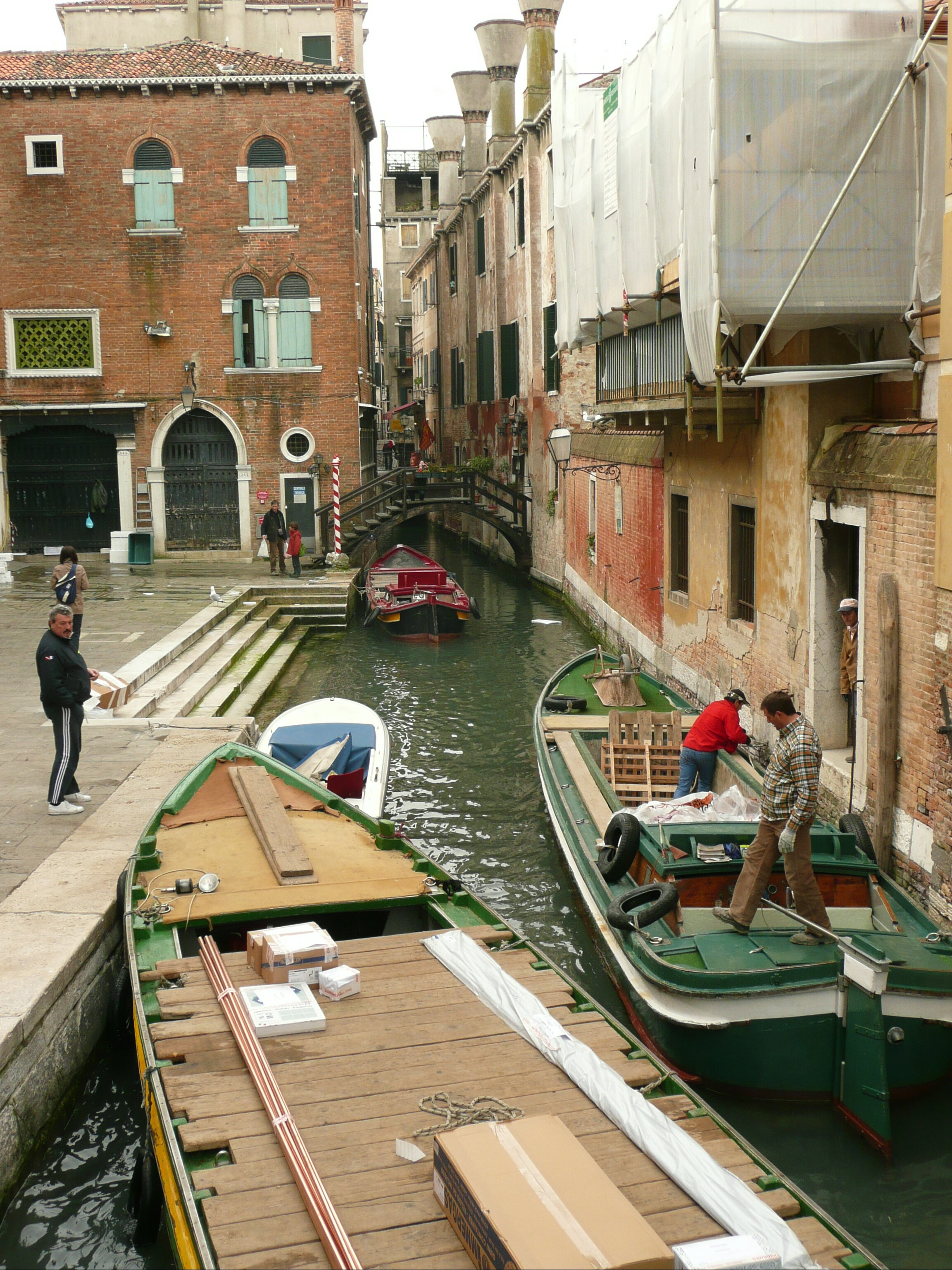 This is a canal in Venice clogged with boats.